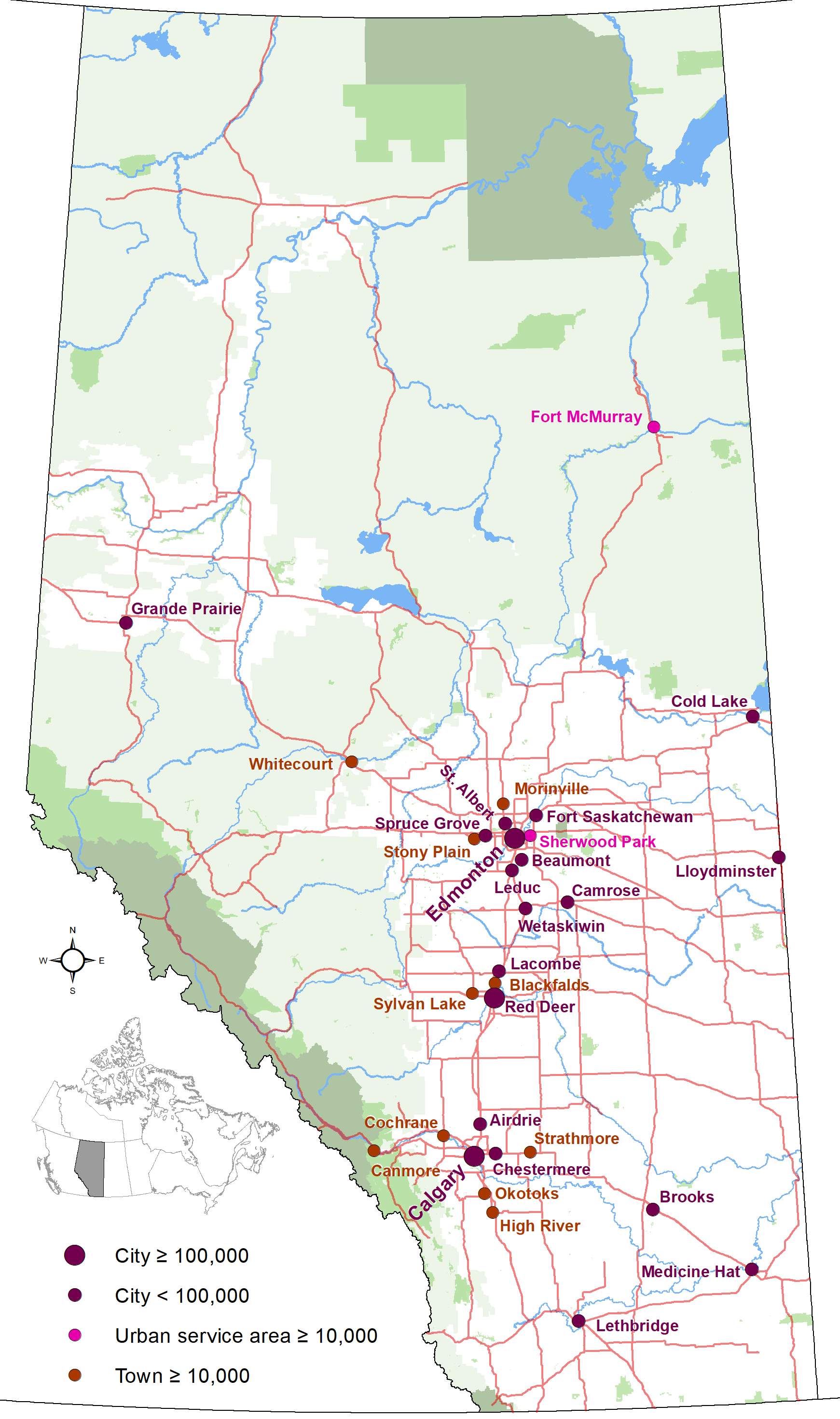 Map showing locations of Alberta 19 cities and city-equivalents (Fort McMurray and Sherwood Park urban service areas and towns with populations of 10,000 or greater) as of January 2019, with base reference features (major lakes and rivers, provincial 1-216 highway series, national parks, provincial protected areas and green and white areas).